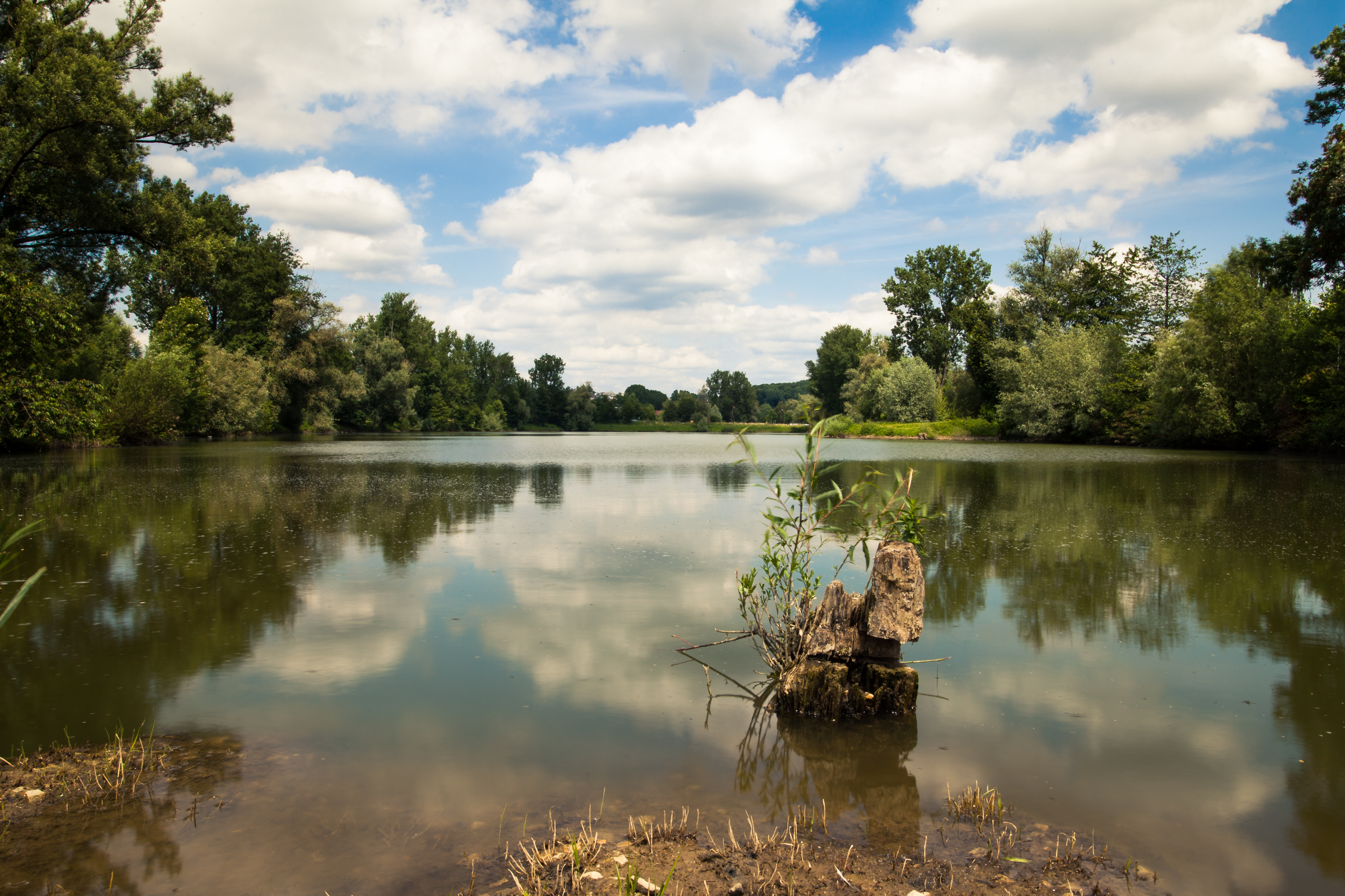 quarry pond in Wernau (Neckar), natural reserve